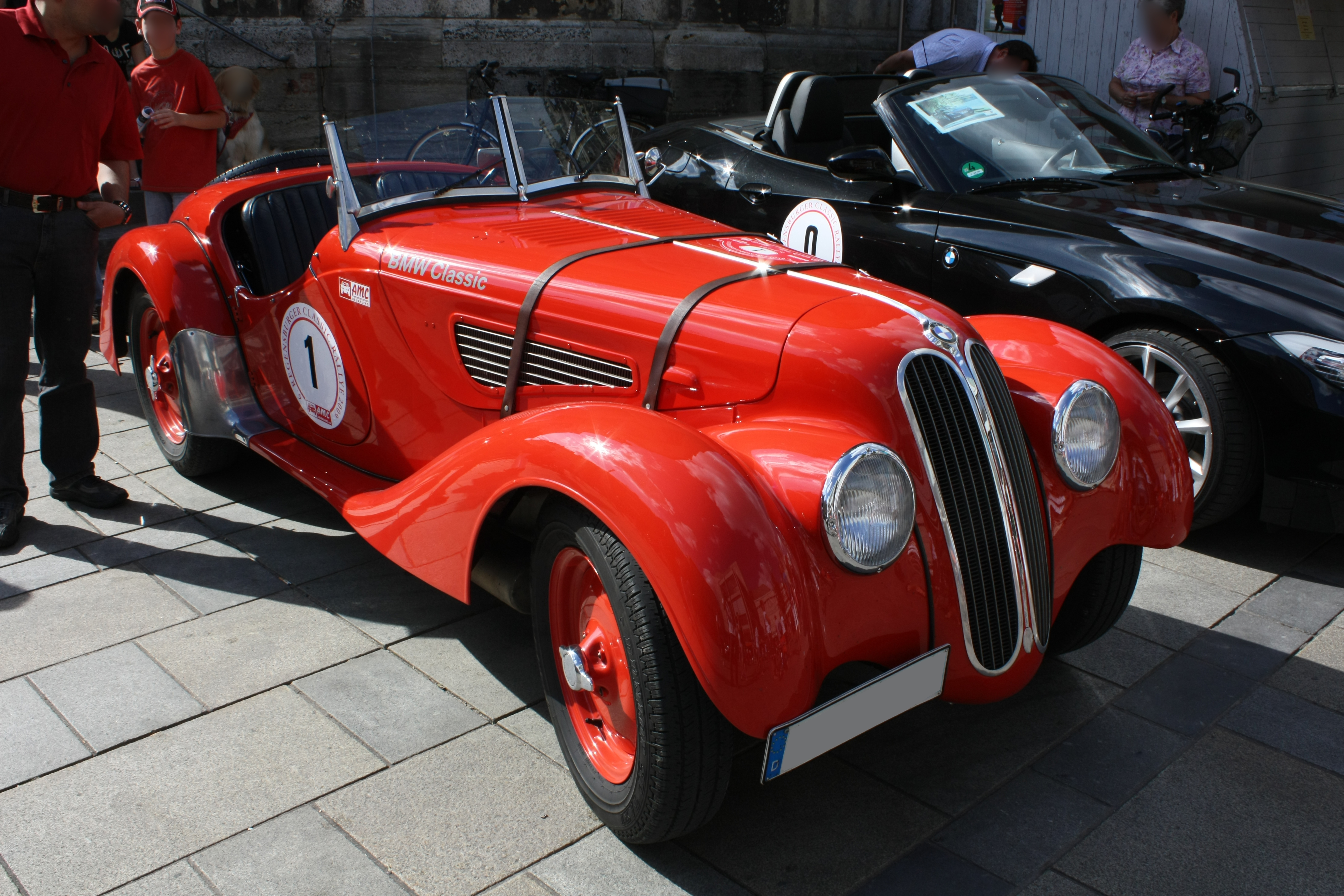 BMW 328